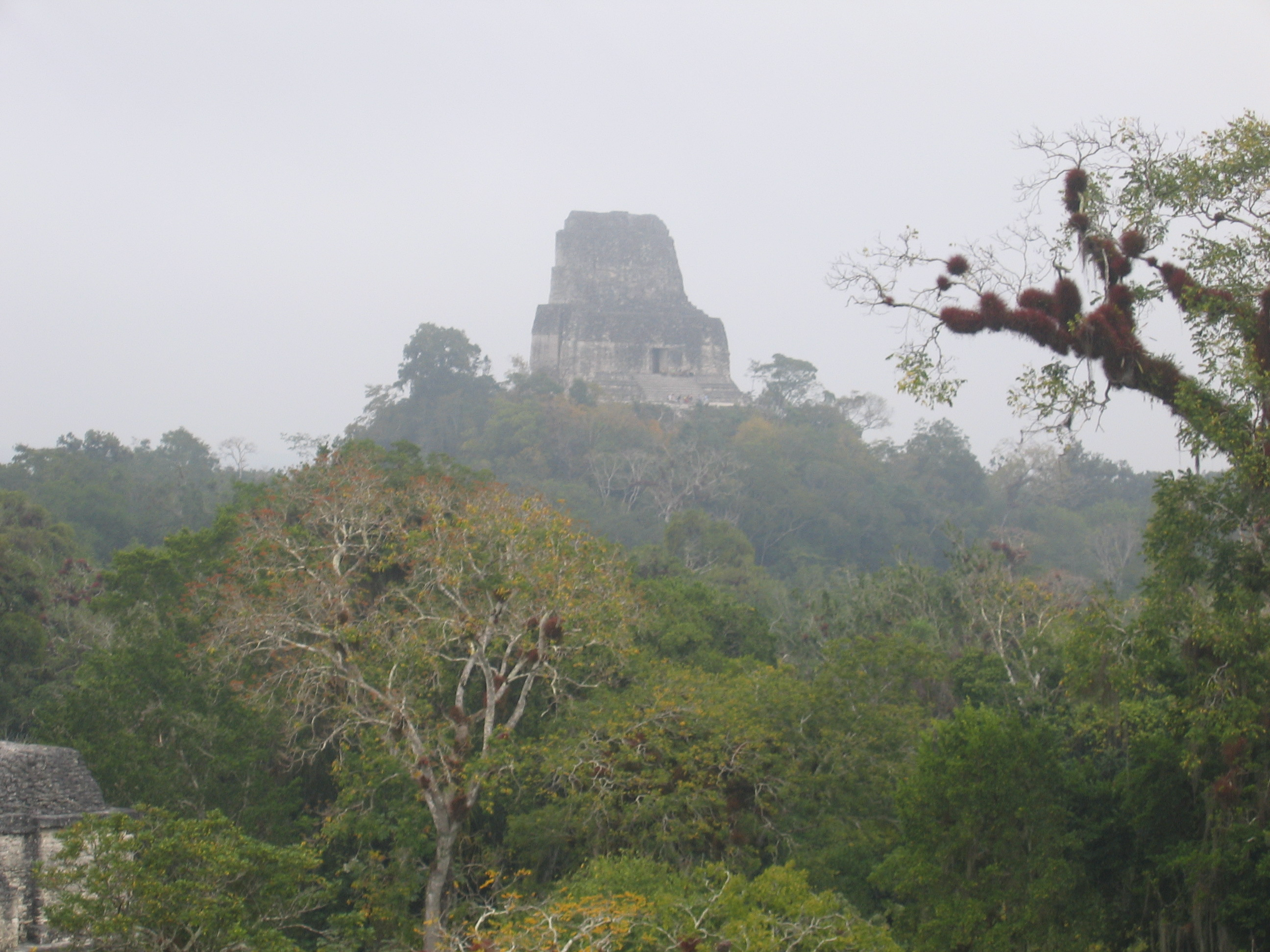 Temple IV at the Classic Period Maya ruins of Tikal, 8th century AD, Peten Department, Guatemala.